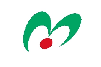 Flag of Misaki Okayama